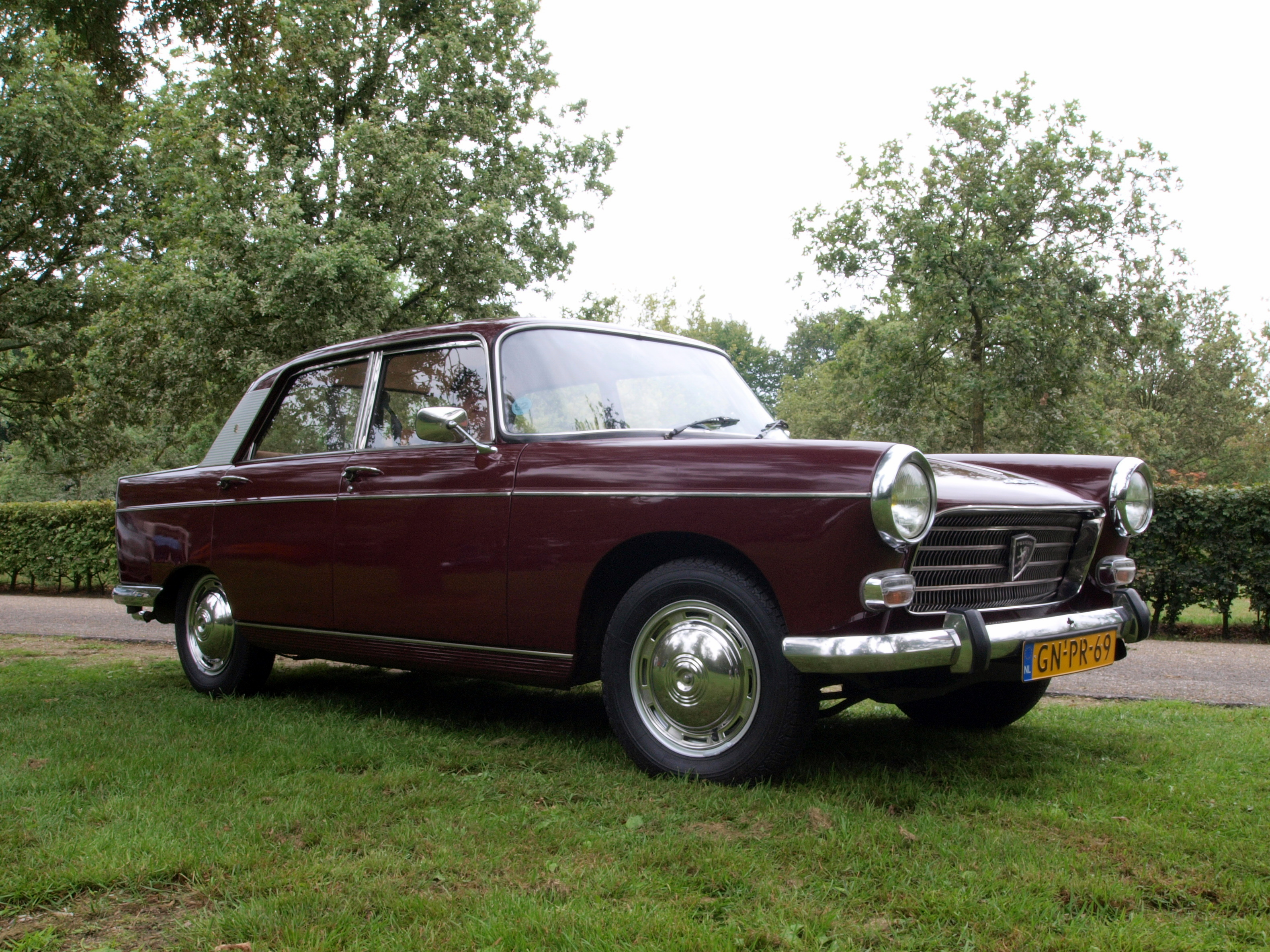 Photographed at the 2010 Autotron Classic car meeting, Rosmalen, The Netherlands. OLYMPUS DIGITAL CAMERA